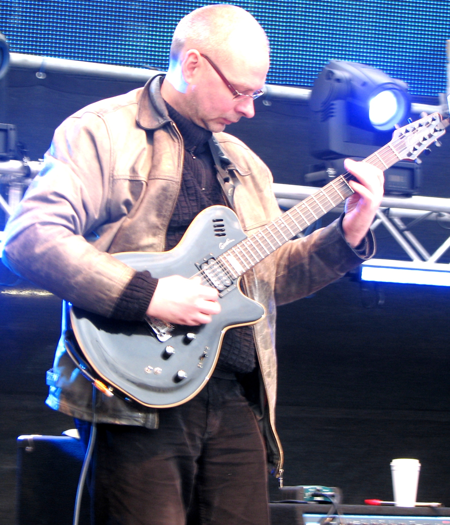 Mart Soo performing in Grand Slam in Tallinn